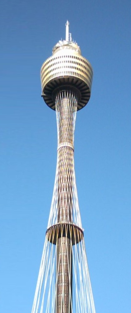 Edited view of the Sydney Tower, also known as 'Centrepoint Tower', in the Sydney CBD, Sydney, Australia.